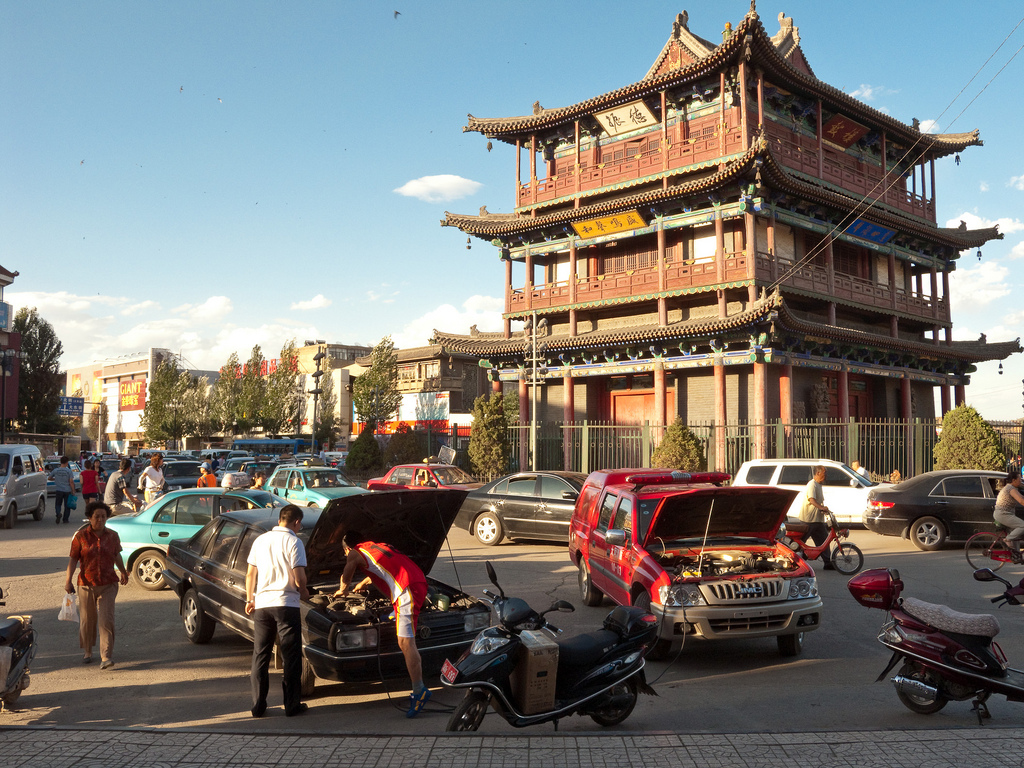 Drum Tower in Datong